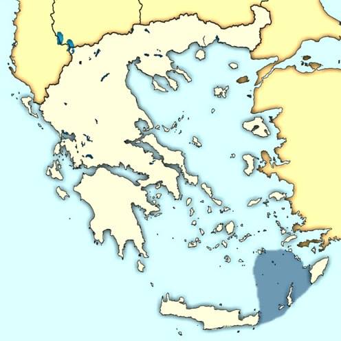 Carpathian Sea